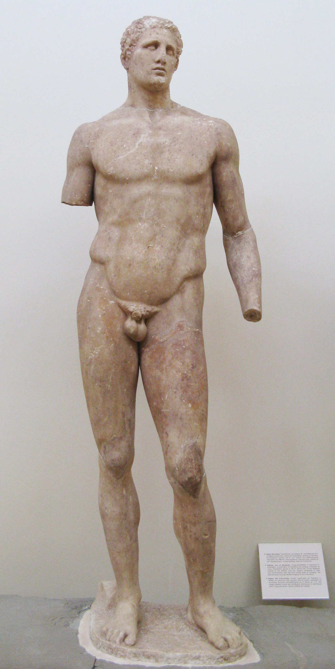 Statue of Hagias, possibly by Lysippos or his son Euthykrates (RIDGWAY, B. Hellenistic sculpture, 2001), from the votive of Daochos II in Delphi. Marble copy of a bronze original. Missing right arm and left hand, knees and calves. The nose is slightly damaged.